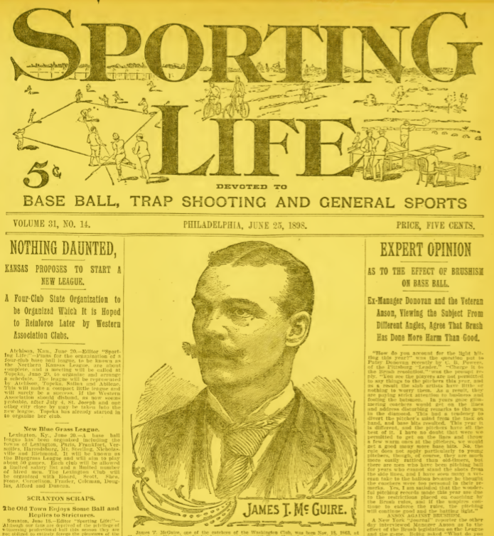 Front page of Sporting Life featuring drawing of Deacon McGuire